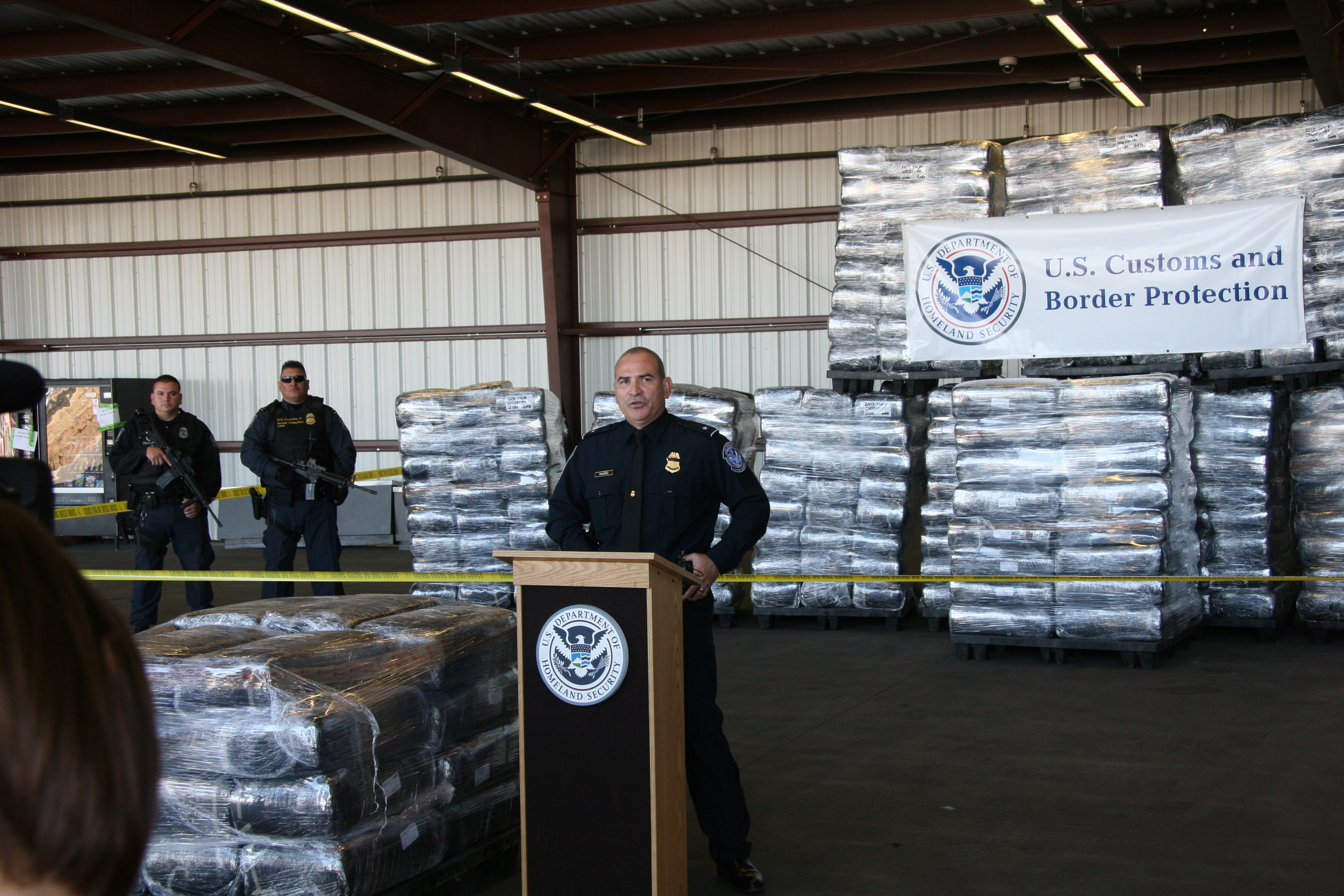 Nogales Port Director Guadalupe Ramirez speaks to the media regarding this major marijuana seizure.